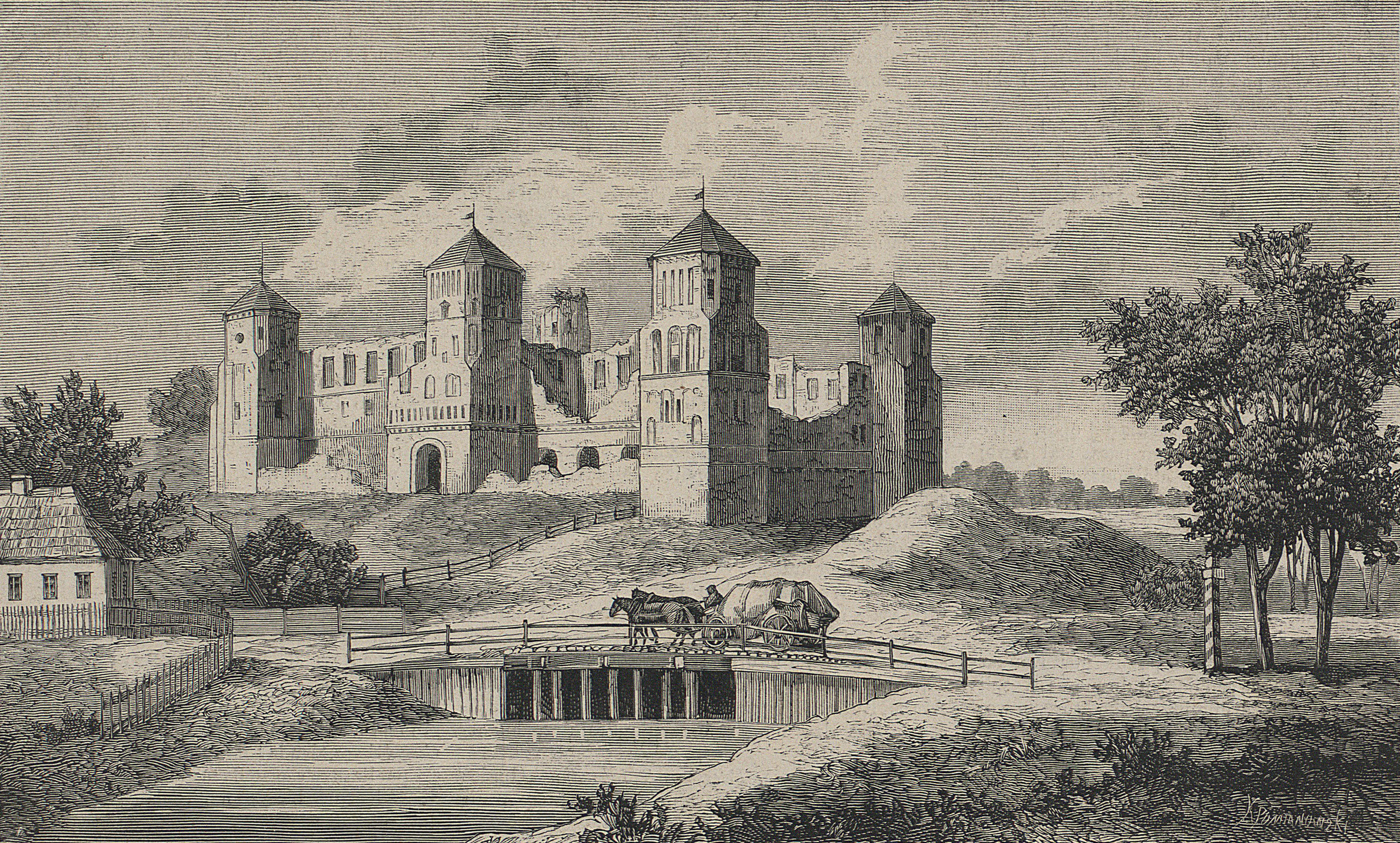 View of the Castle in Mir